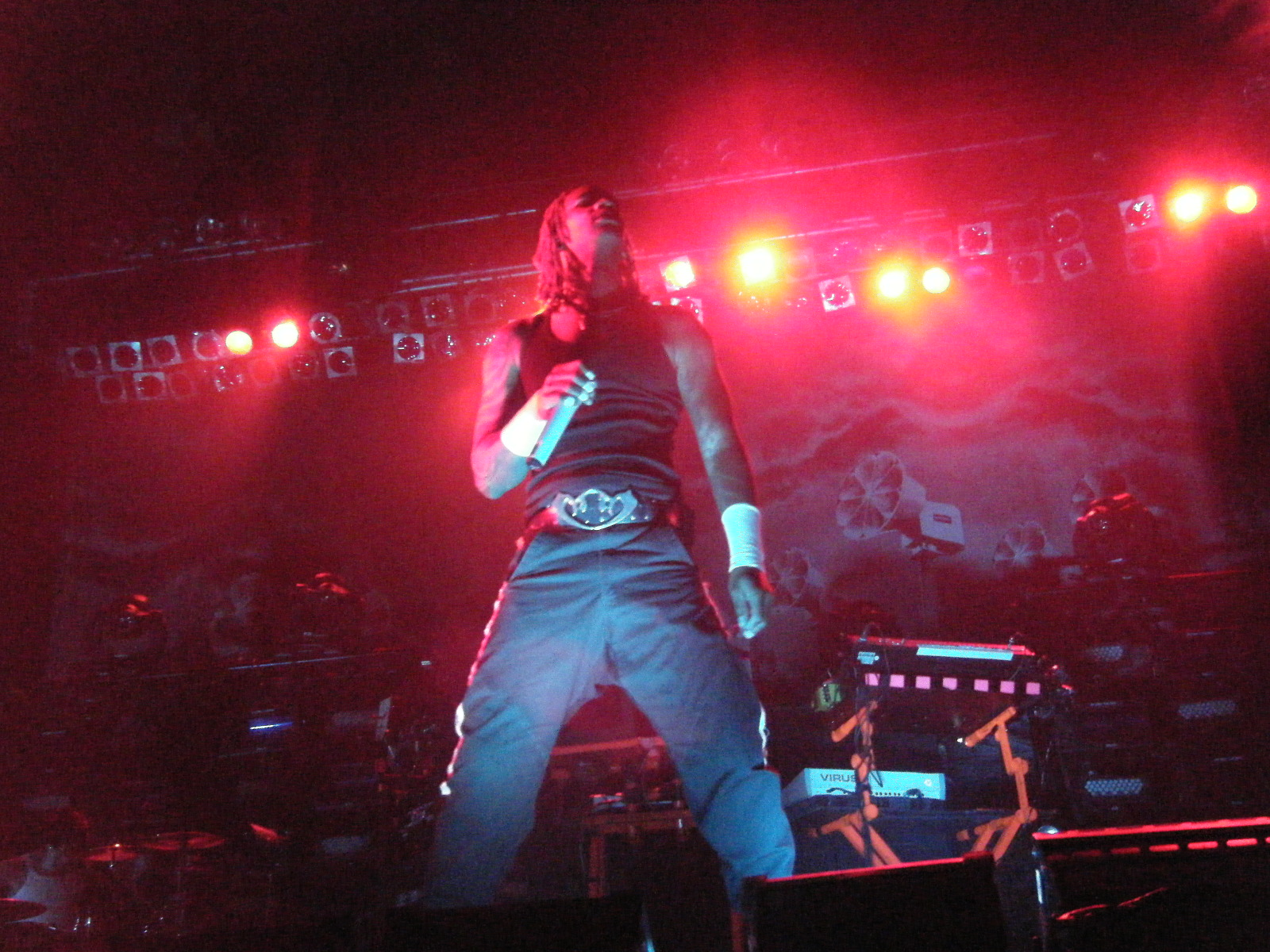 Maxim performing at The Electric Factory in Philadelphia, PA, USA.